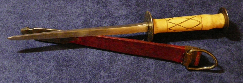 A rondel dagger made in damascened steel.